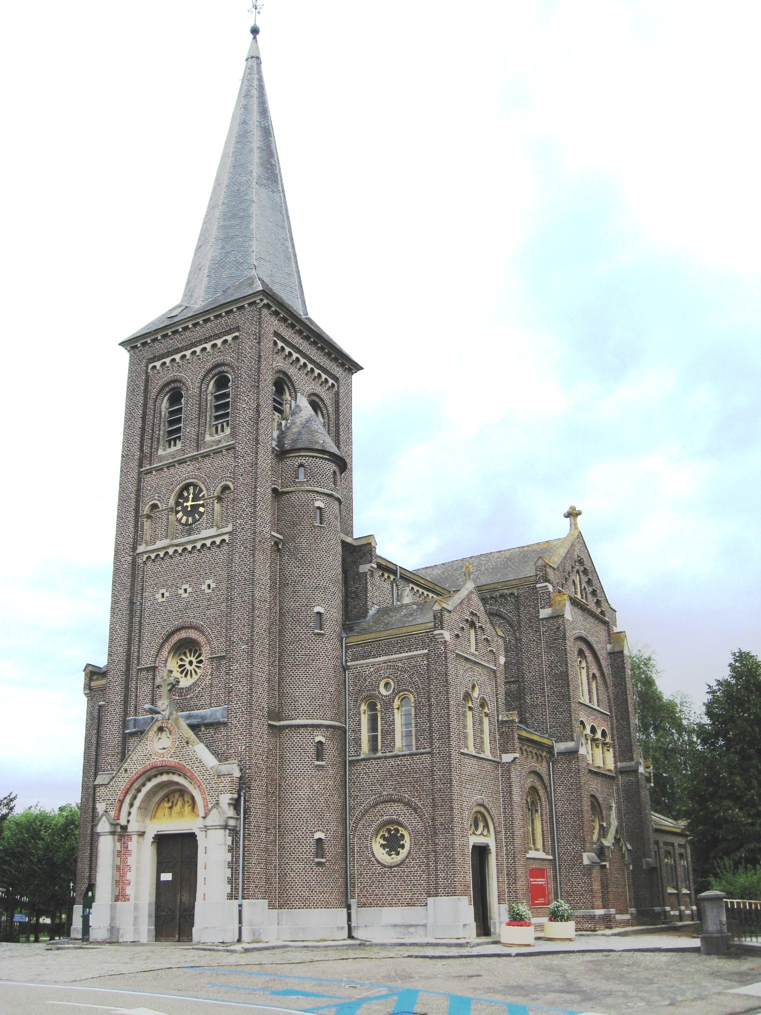 Church of Saint Lambert in Zelem, Halen, Limburg, Belgium